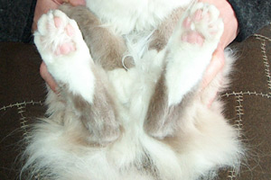 Adult male colour blu-point, posterior gloves with inverted V Courtesy of